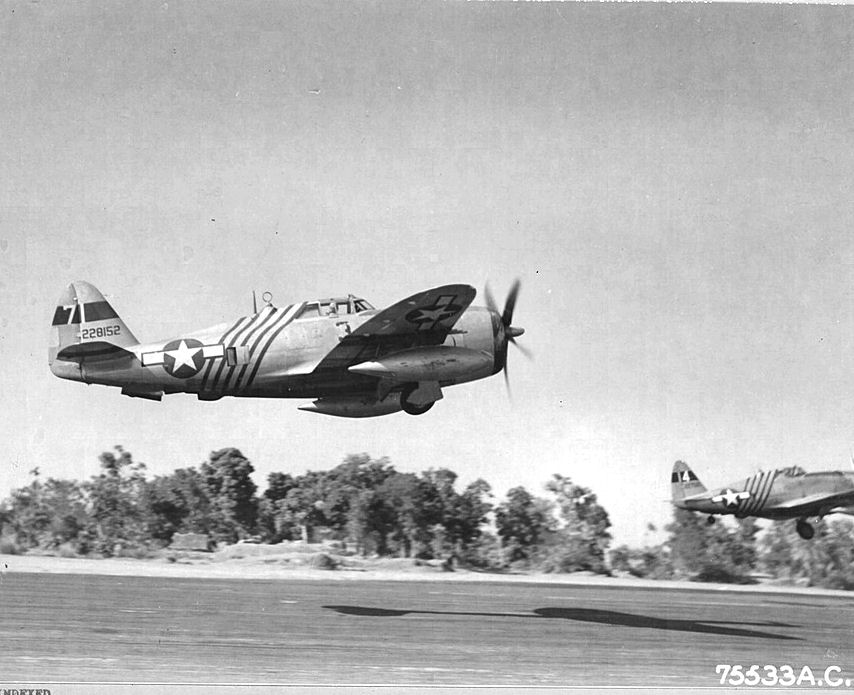 P-47 Thunderbolts of the 1st Air Commando Group, 10th Air Force, taking off. Republic P-47D-23-RA Thunderbolt 42-228152 in foreground.